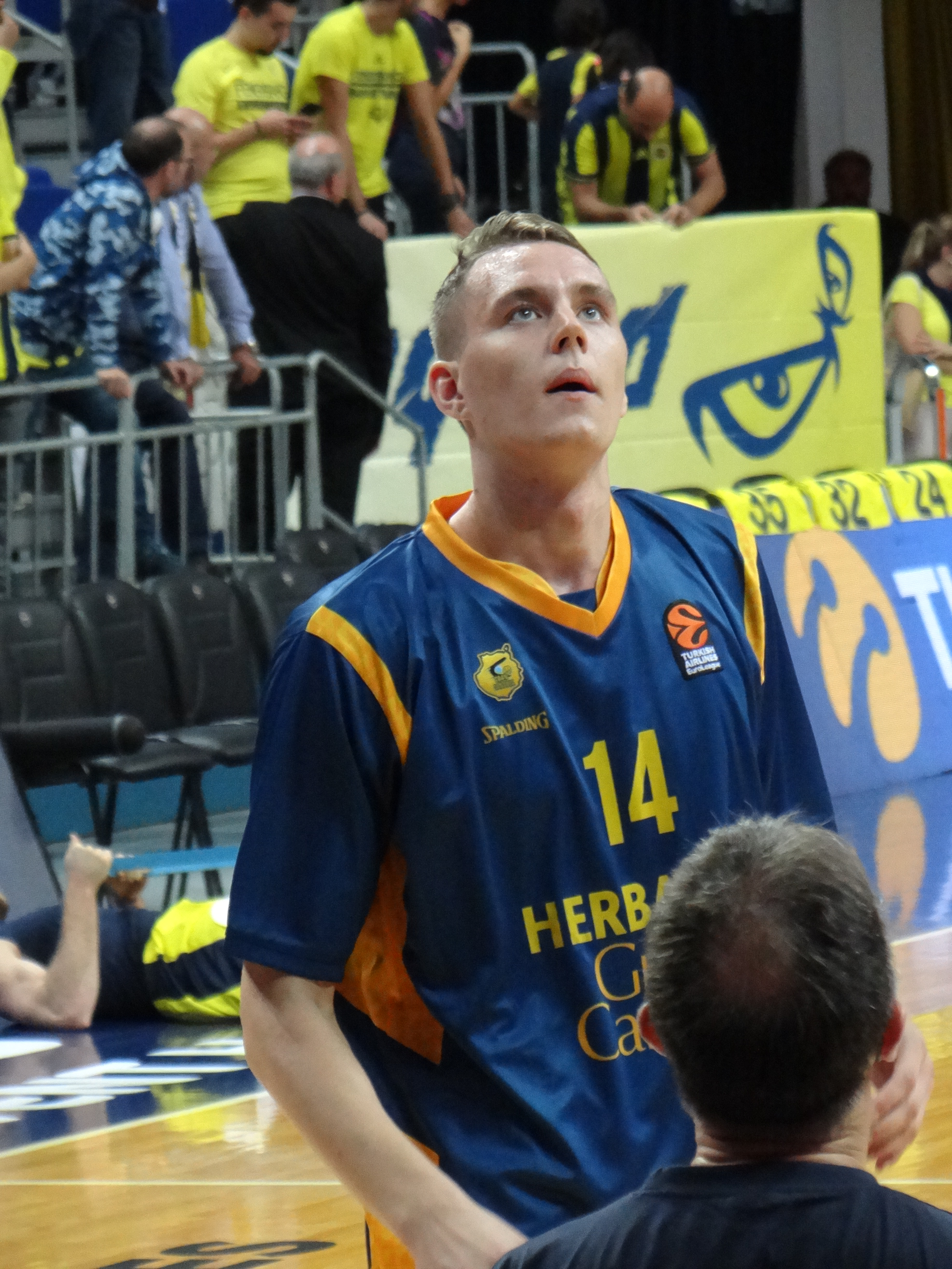 Anžejs Pasečņiks 14 CB Gran Canaria EuroLeague 20181012